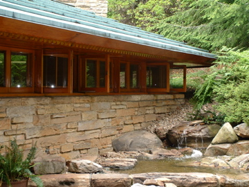 Picture of side of Kentuck Knob, a Frank Lloyd Wright home in Stewart Township, PA, showing how the house was built right into the surroundings